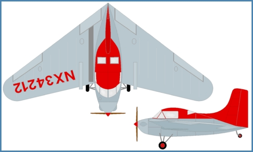 Cornelius Mallard 1940